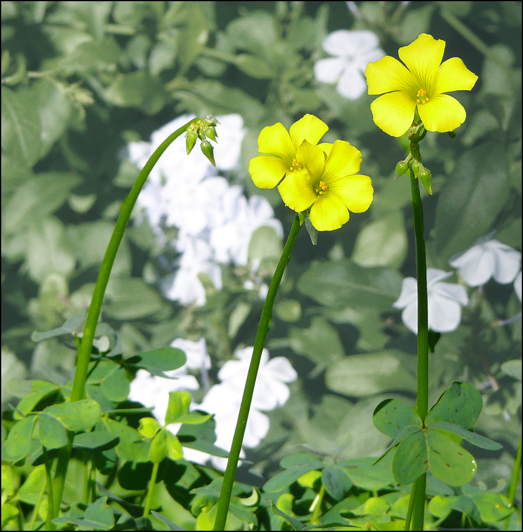 Oxalis pes-caprae flowering in Weizmann Institute of Science, Israel, at mid December